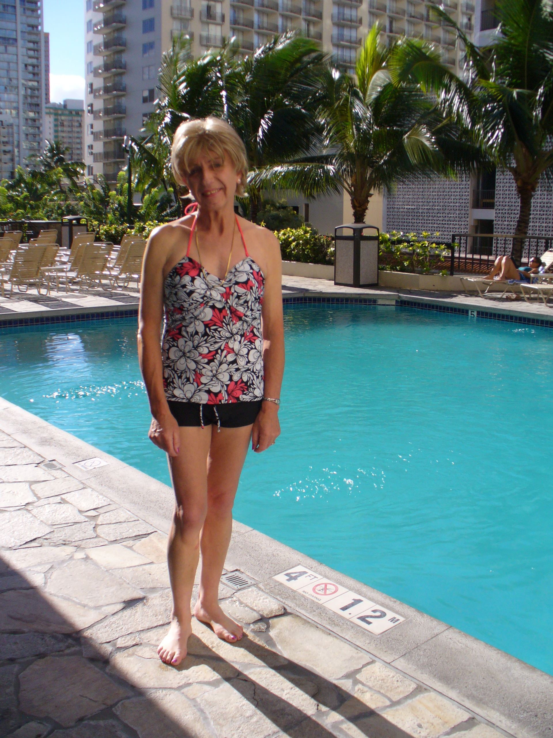 A woman wearing a Tankini. Taken somewhere in Hawaii.